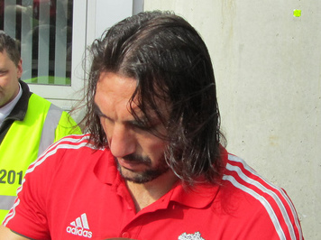 Greek football player, Sotirios Kyrgiakos, after pre-season friendly Hull City v. Liverpool FC.